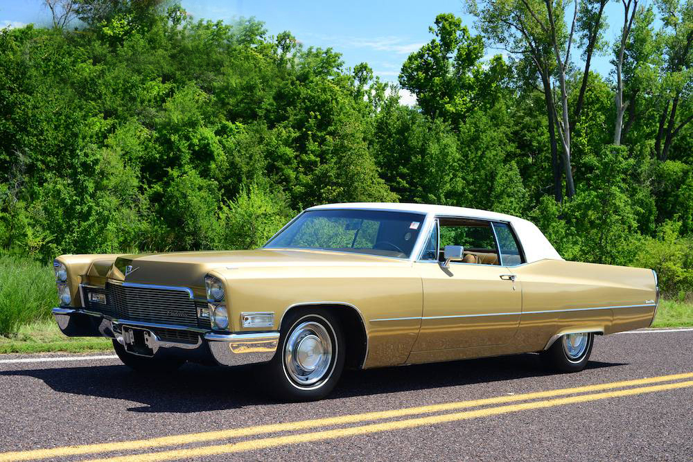 This is a picture of a vehicle (name of it is on the file name).